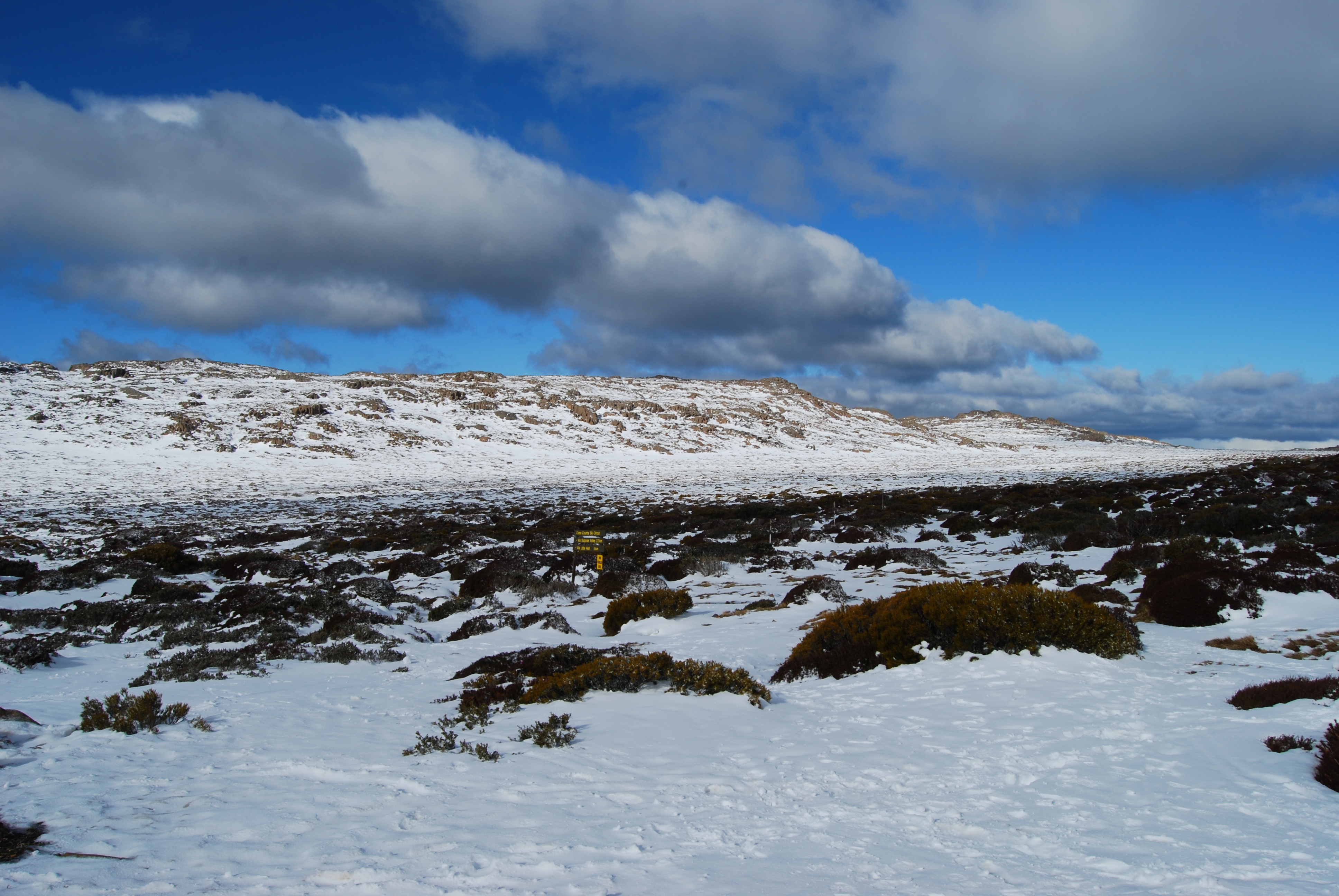 Snow field on top of Ben Lomond within the national park. Tasmania, Australia